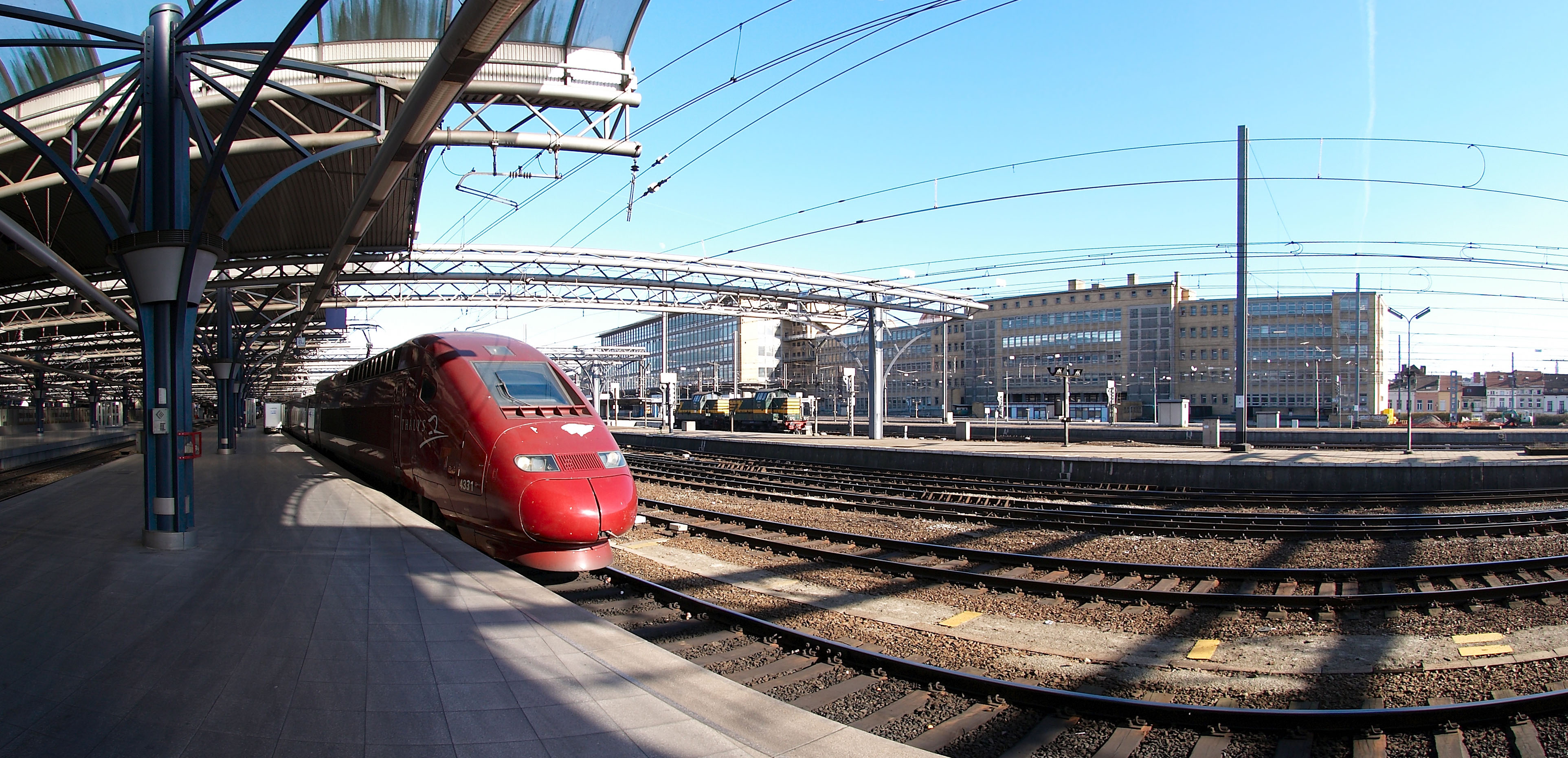 Station Brussels South with Thalys train, looking direction NE.